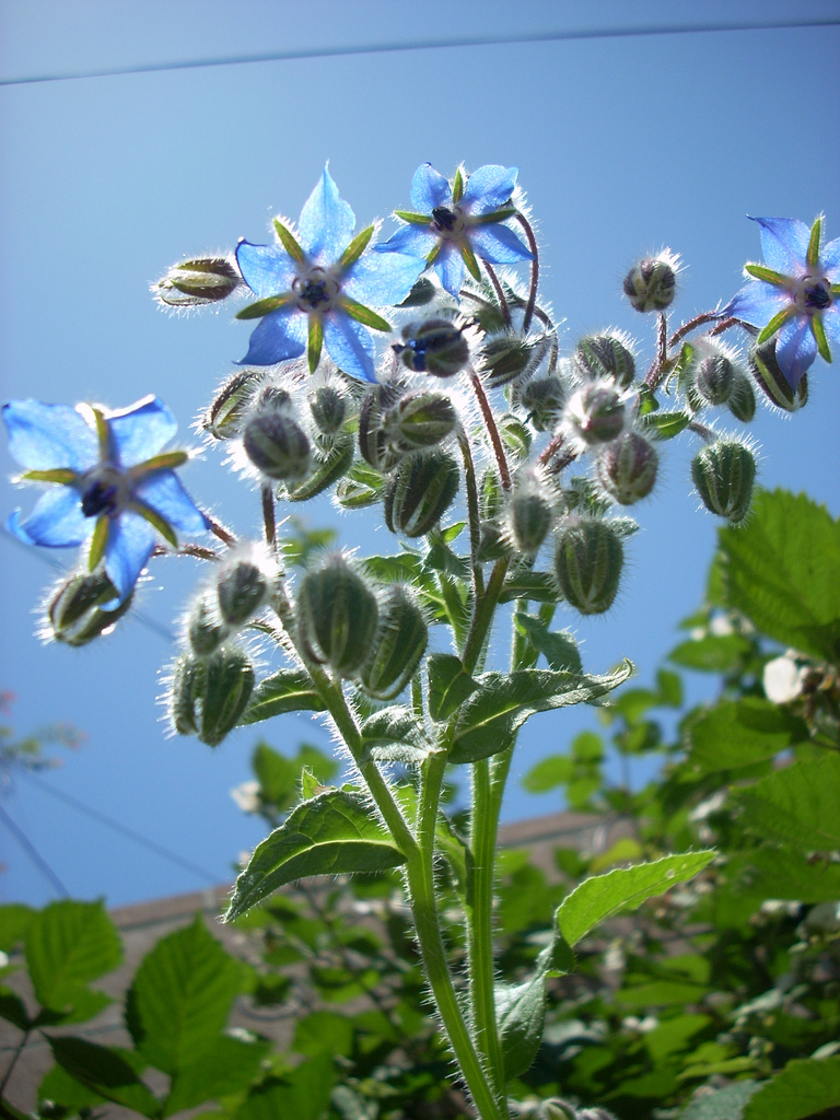 Blue borage flowers, California